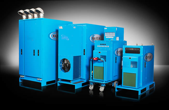 Micro Modular Data Centers Raser HD Raser DX C3Spear Shield